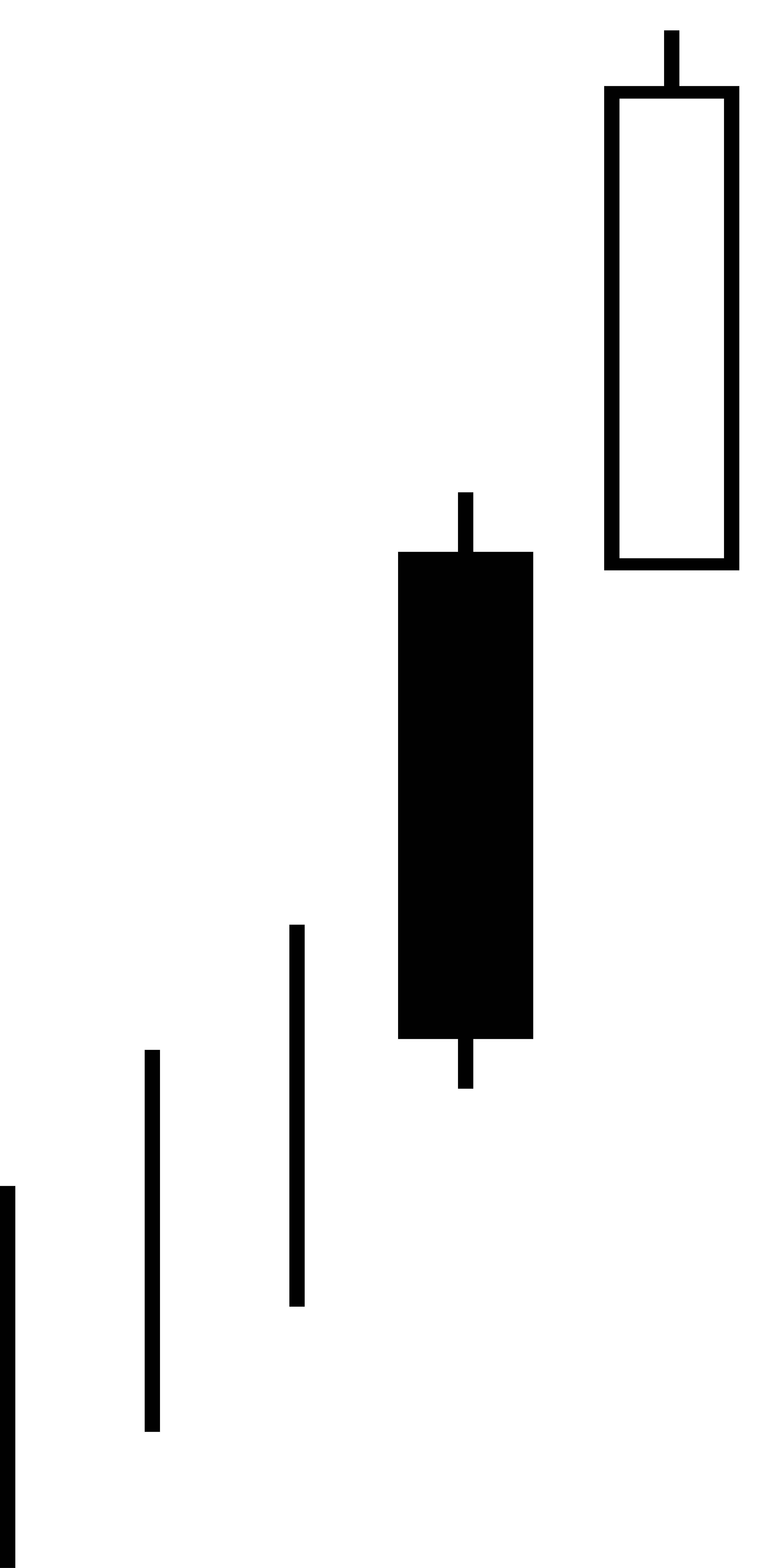 Bullish seperating lines